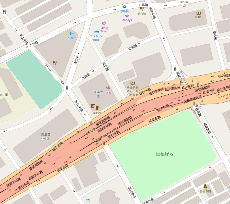 Dongxinqiao, an area that covers the crossing of East Yan'an Road and Middle Zhejiang Road.